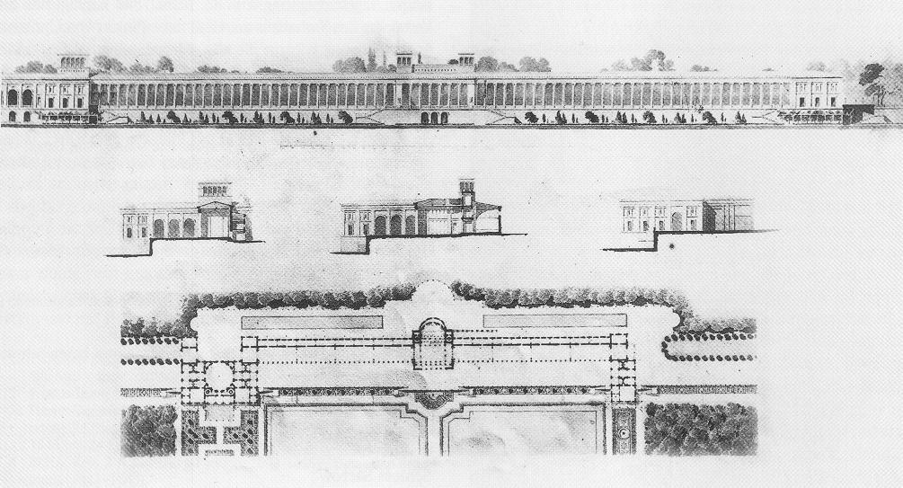 Ground-plan and elevation for the Orangery palace, Potsdam, Germany